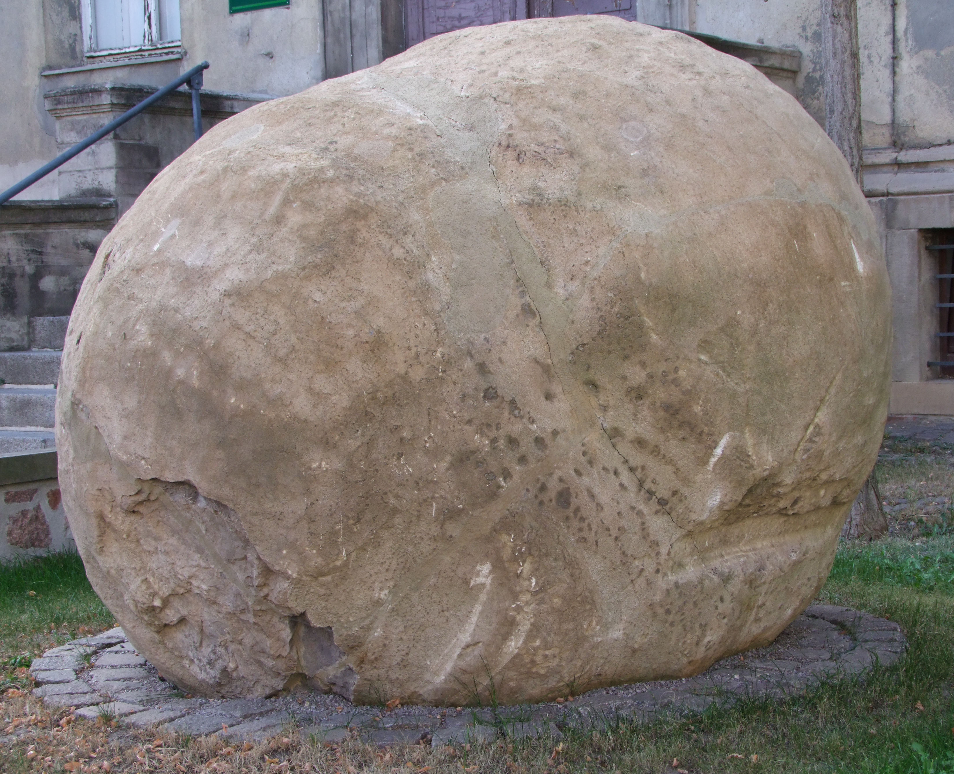 Spherical calcite concretion from the lignite deposits of the Geiseltal area, on display in the Zoological department of the MLU Halle